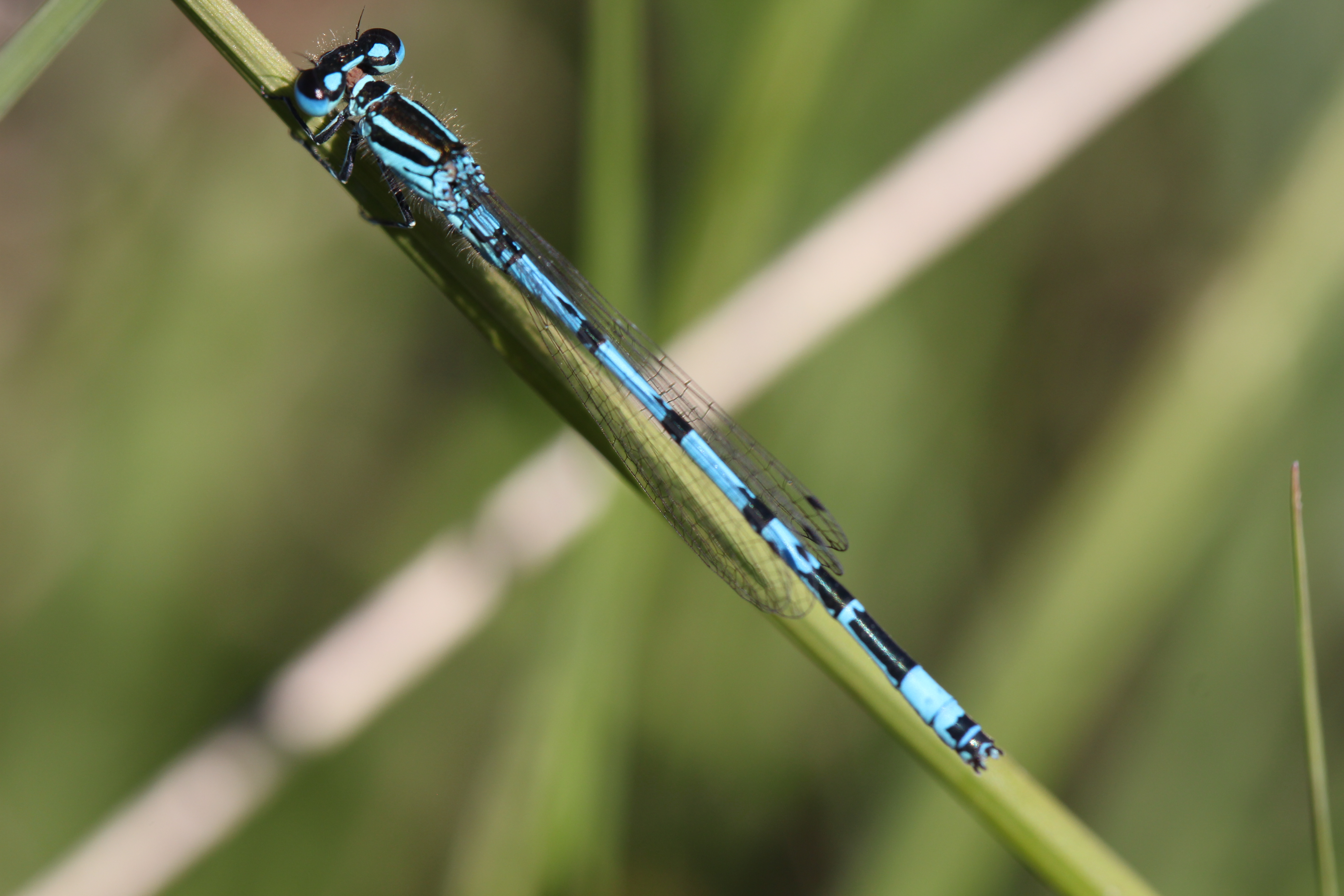 A British first for me. At the well-known Crockford site in the New Forest